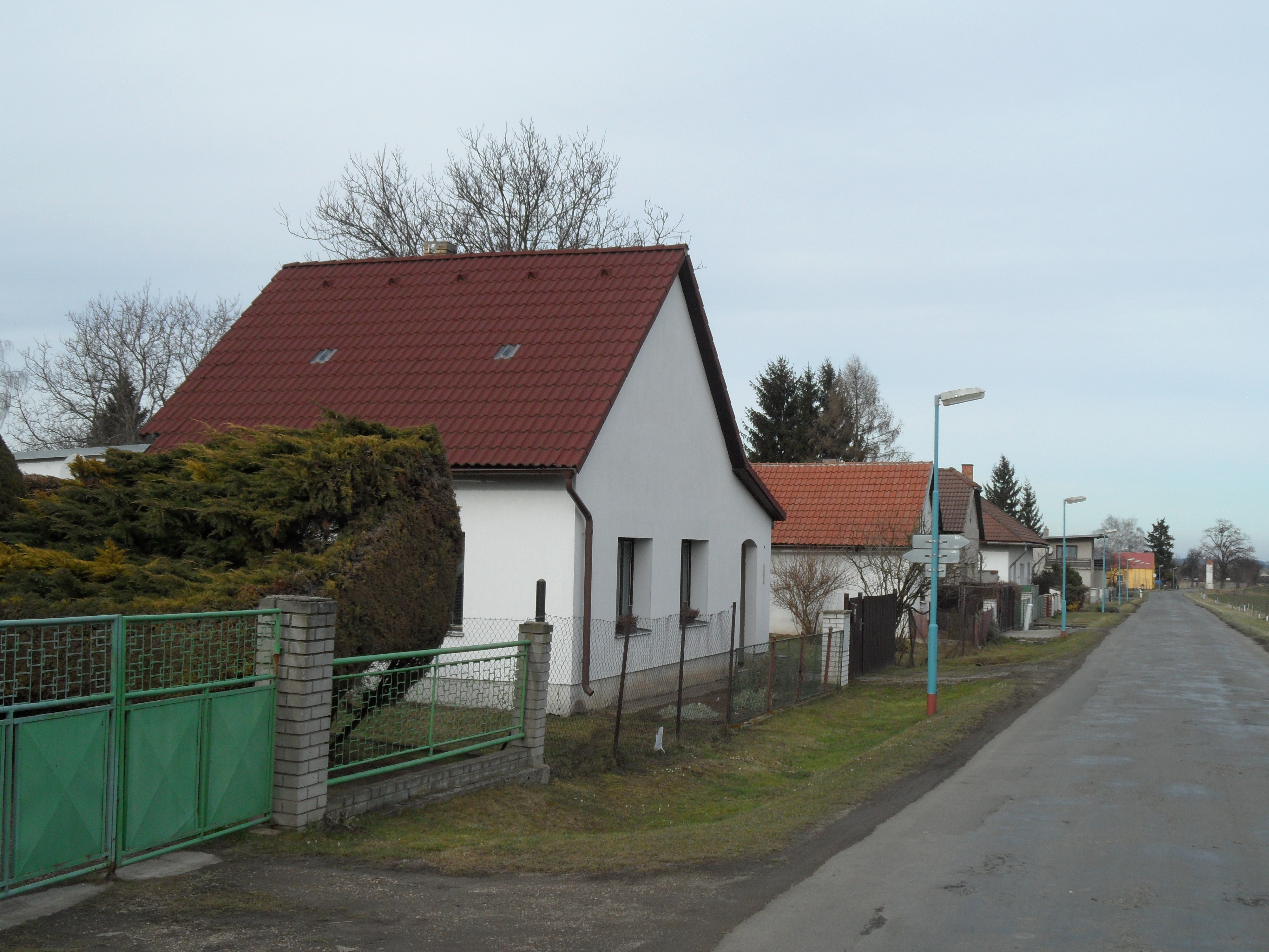 Třebešice. h. Houses alongside Road to Církvice, Kutná Hora District, the Czech Republic.